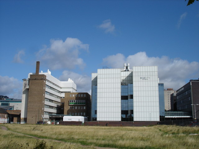 Bio City Nottingham (2)